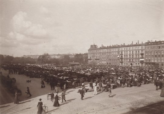 Grøntorvet (later Israels Plads) in Copenhagen, Denmark. The buildings in the background were build in the late 1870s but the market did not open until 1889.